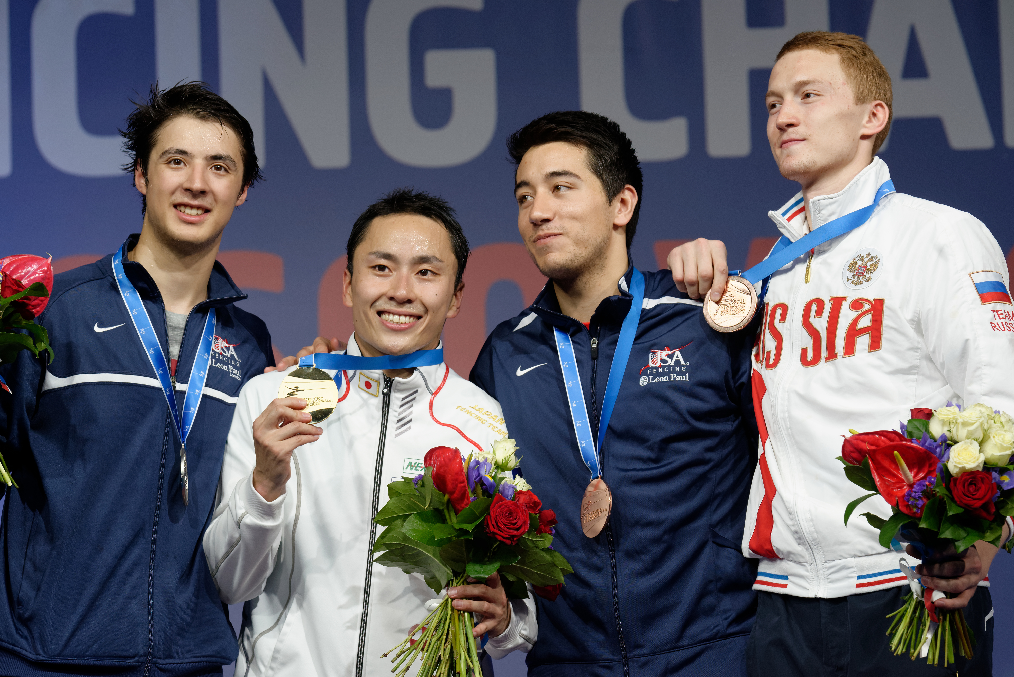 Podium of the men's foil event (from left to right, Alexander Massialas, Yuki Ota, Gerek Meinhardt and Artur Akhmatkhuzin) at the 2015 World Fencing Championships on 16 July 2014 at the Olympic Stadium in Moscow.